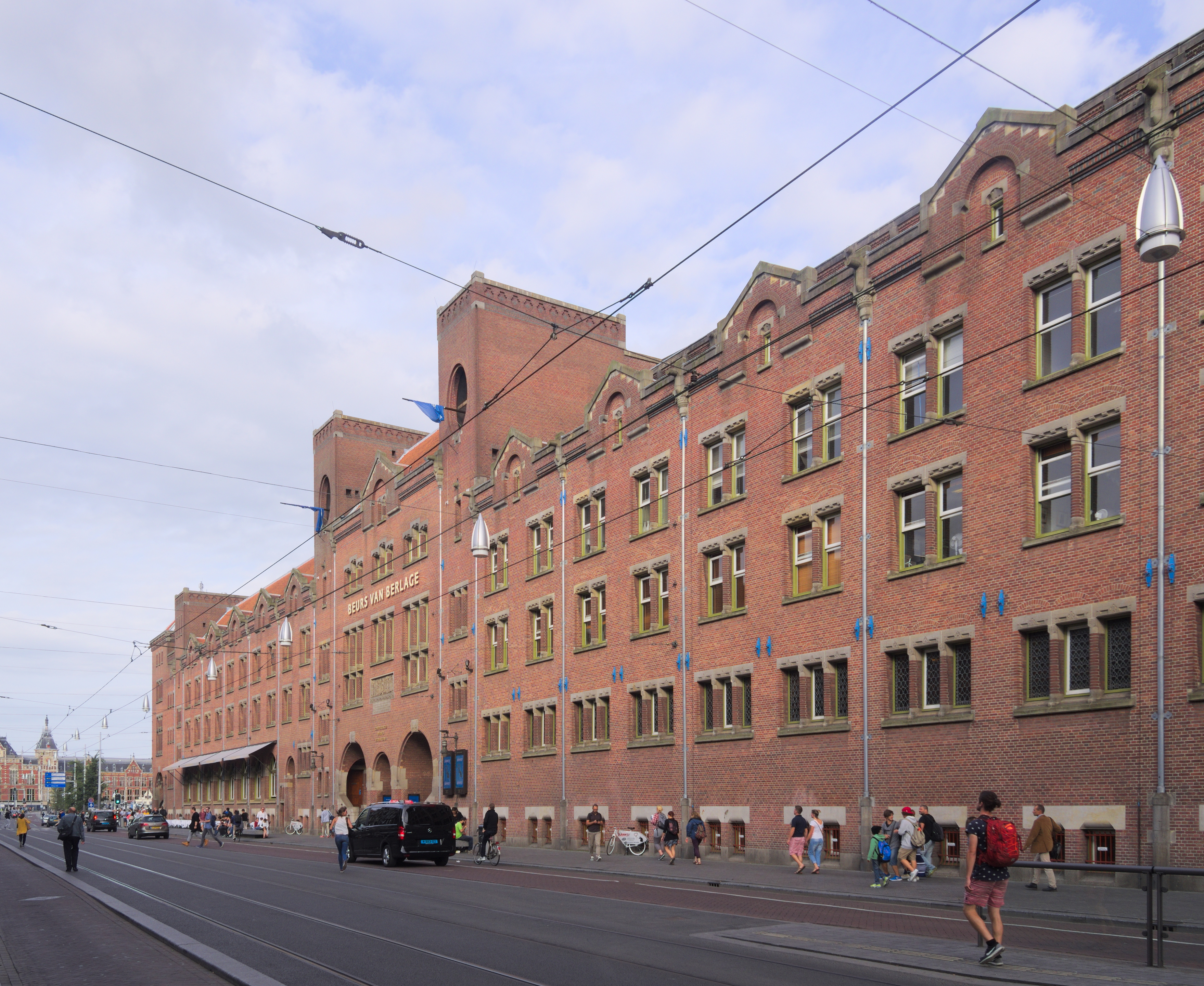 Beurs van Berlage facade on Damrak.